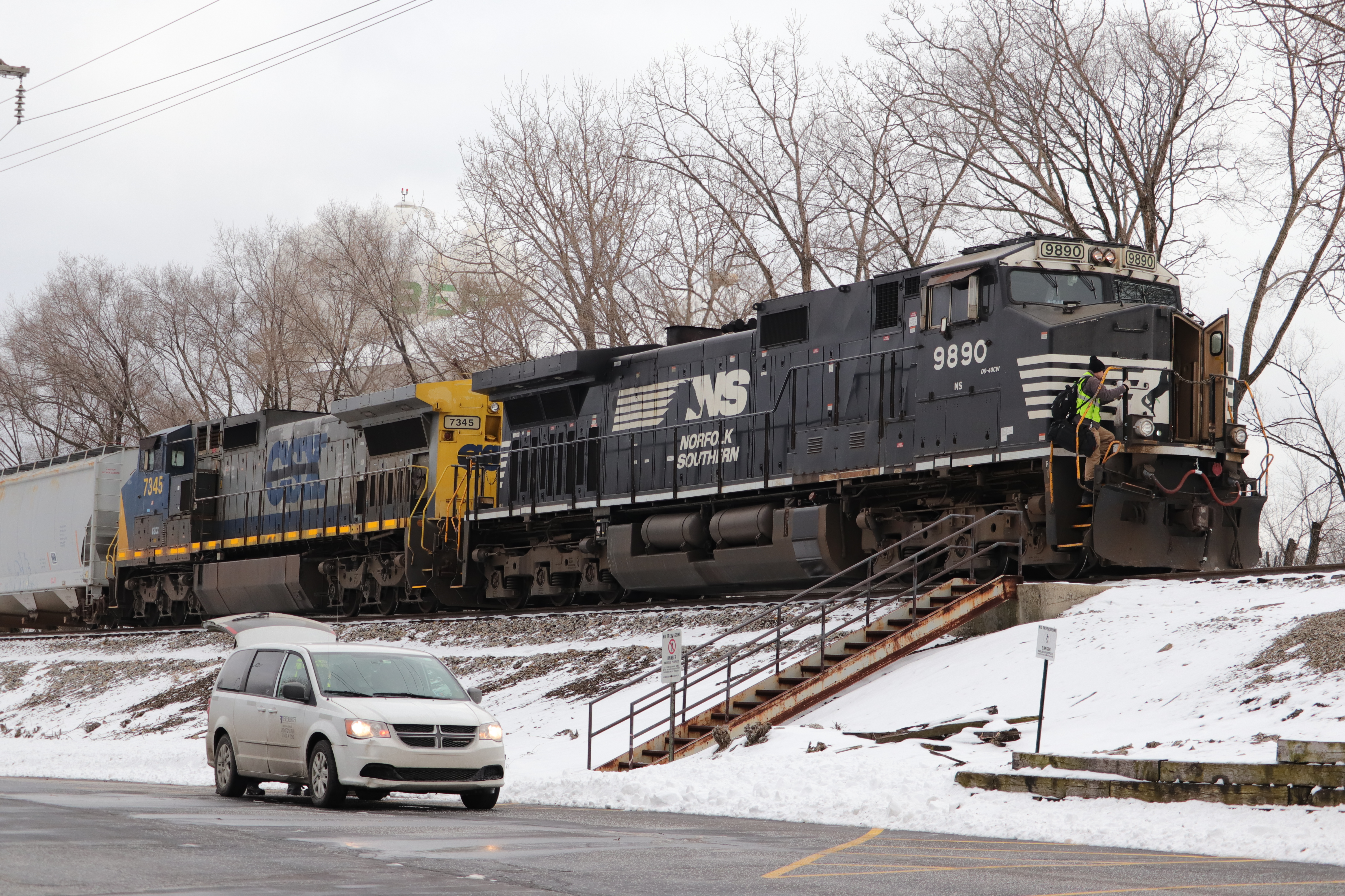 Manifest train M337 parked in Berwyn, IL during a crew change